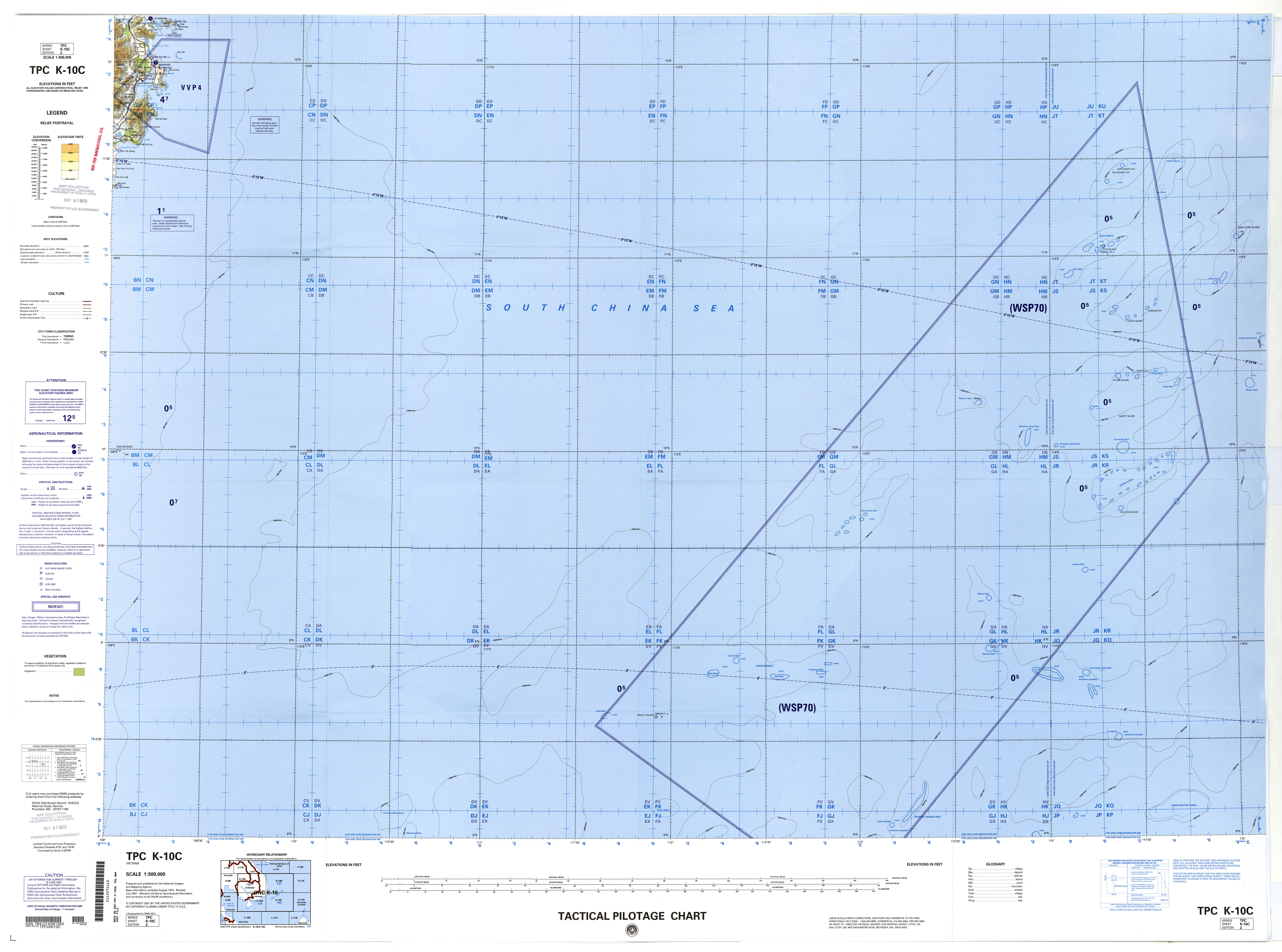 Tactical Pilotage Chart Series - World 1:500,000 Scale